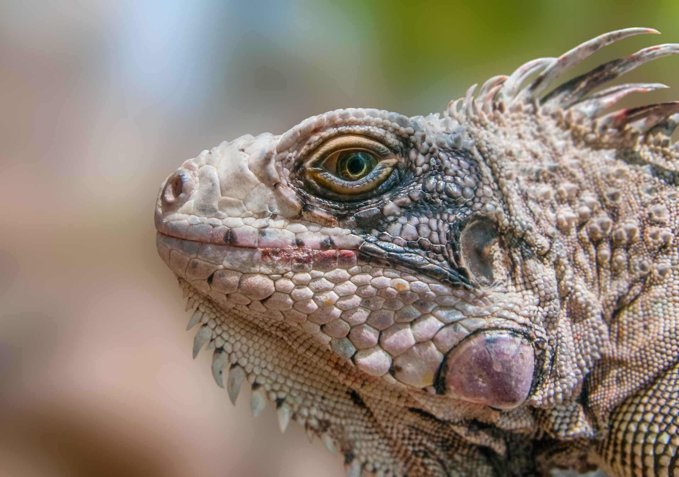 Iguana Iguana from Margarita Island. Iguana found in the wild in thickets, endemic species, endangered.